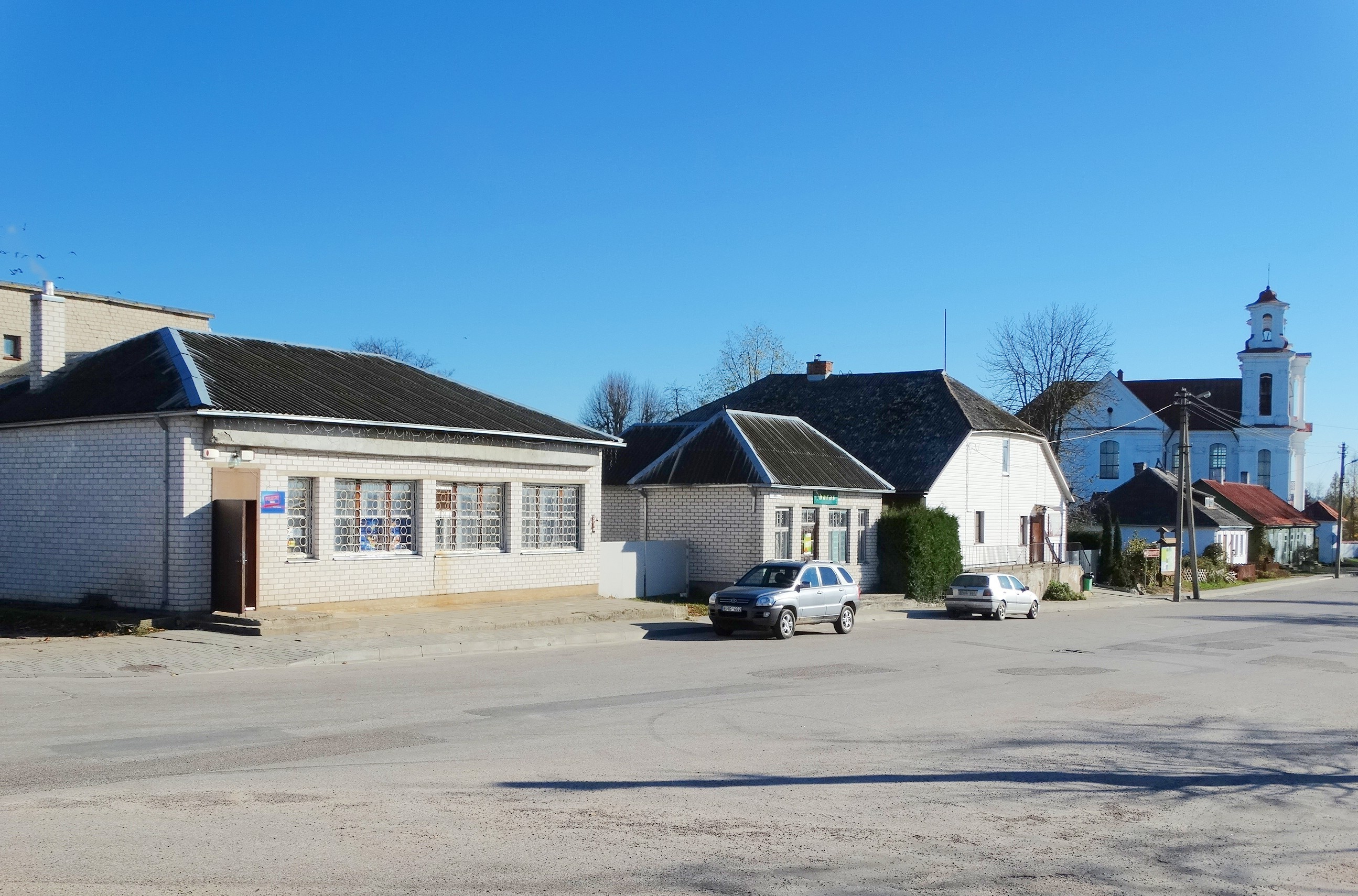 Stakliškės, Prienai district, Lithuania